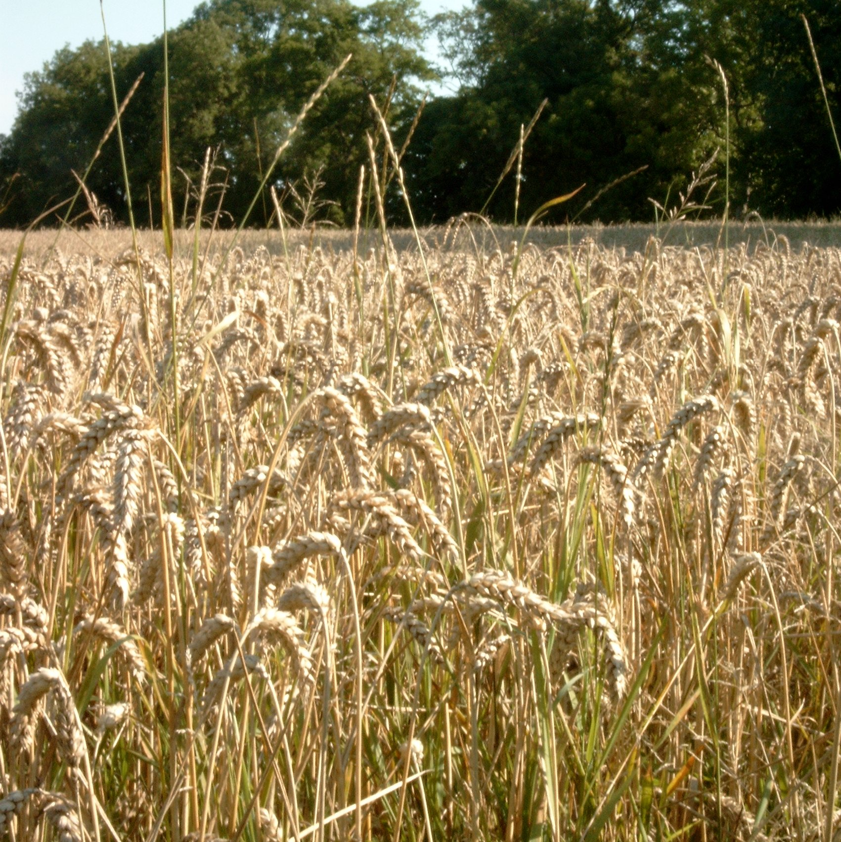 Grain field in Høje Taastrup, Denmark. Photographer: Dan Simon